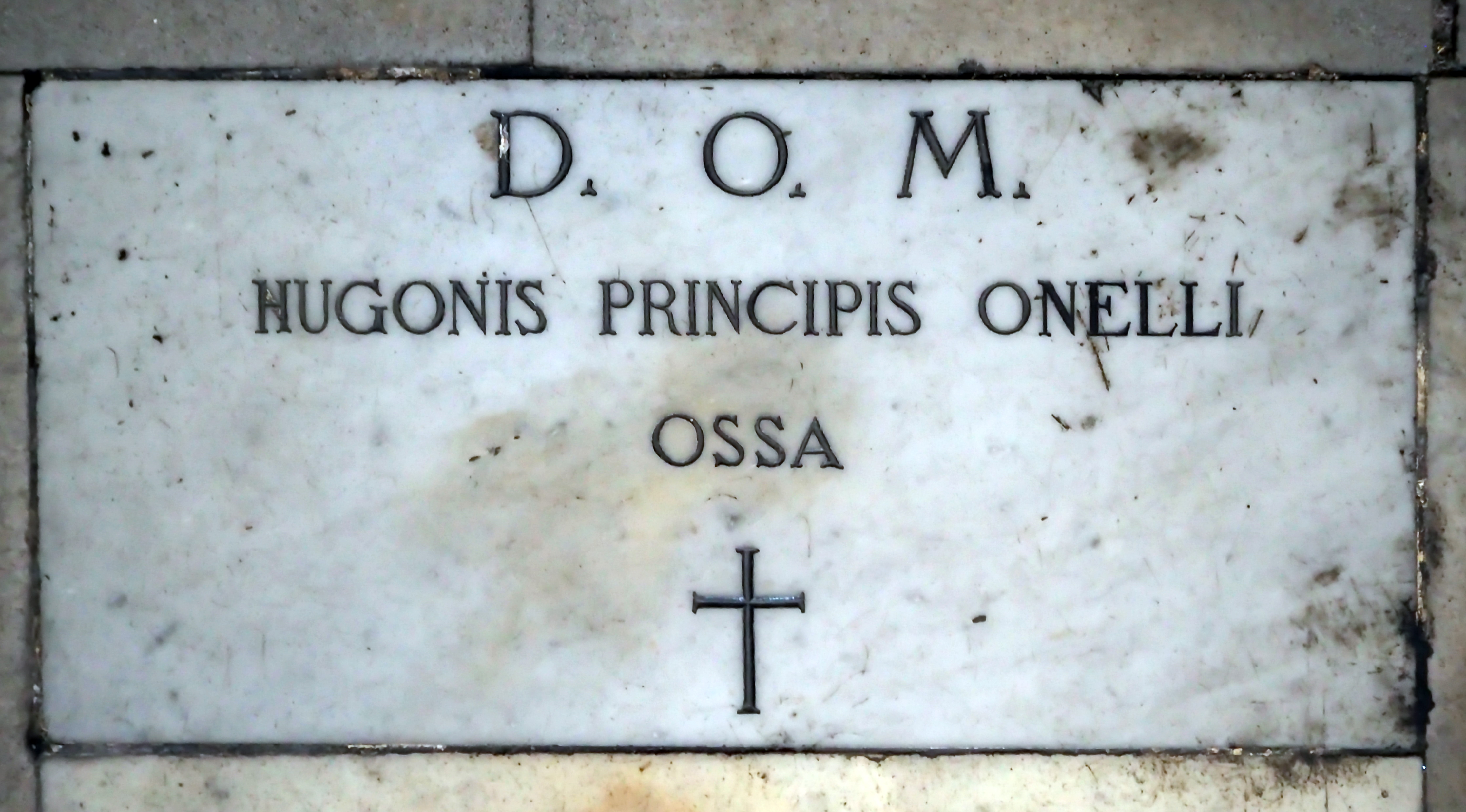 San Pietro in Montorio (Rome); Tomb of Hugh O'Neill Baron of Dungannon